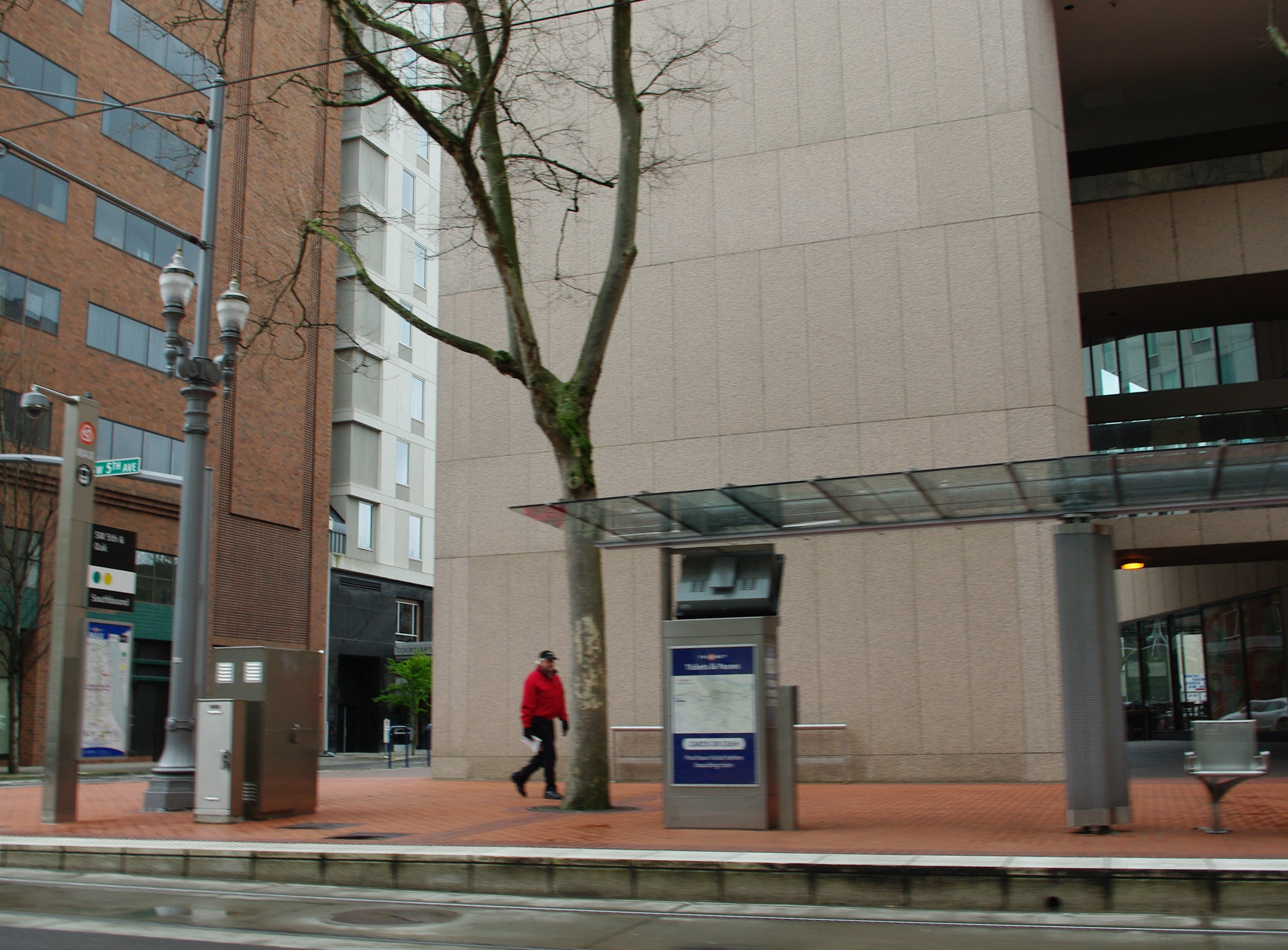 SW 5th & Oak MAX station, southbound platform, in Portland, Oregon.